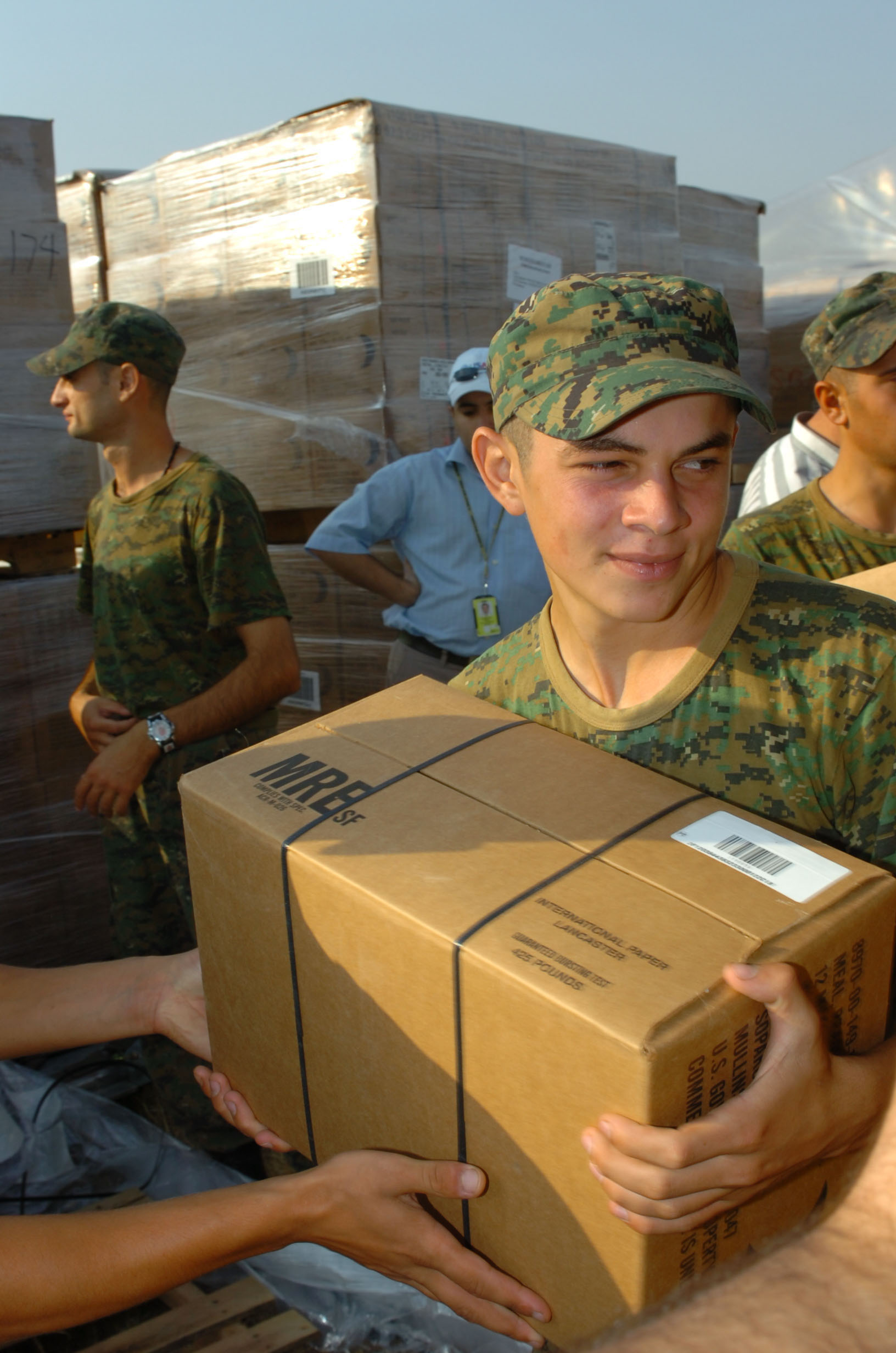 Georgian soldiers, working with U.S. soldiers, assist in delivery of humanitarian assistance supplies to the people of Georgia.